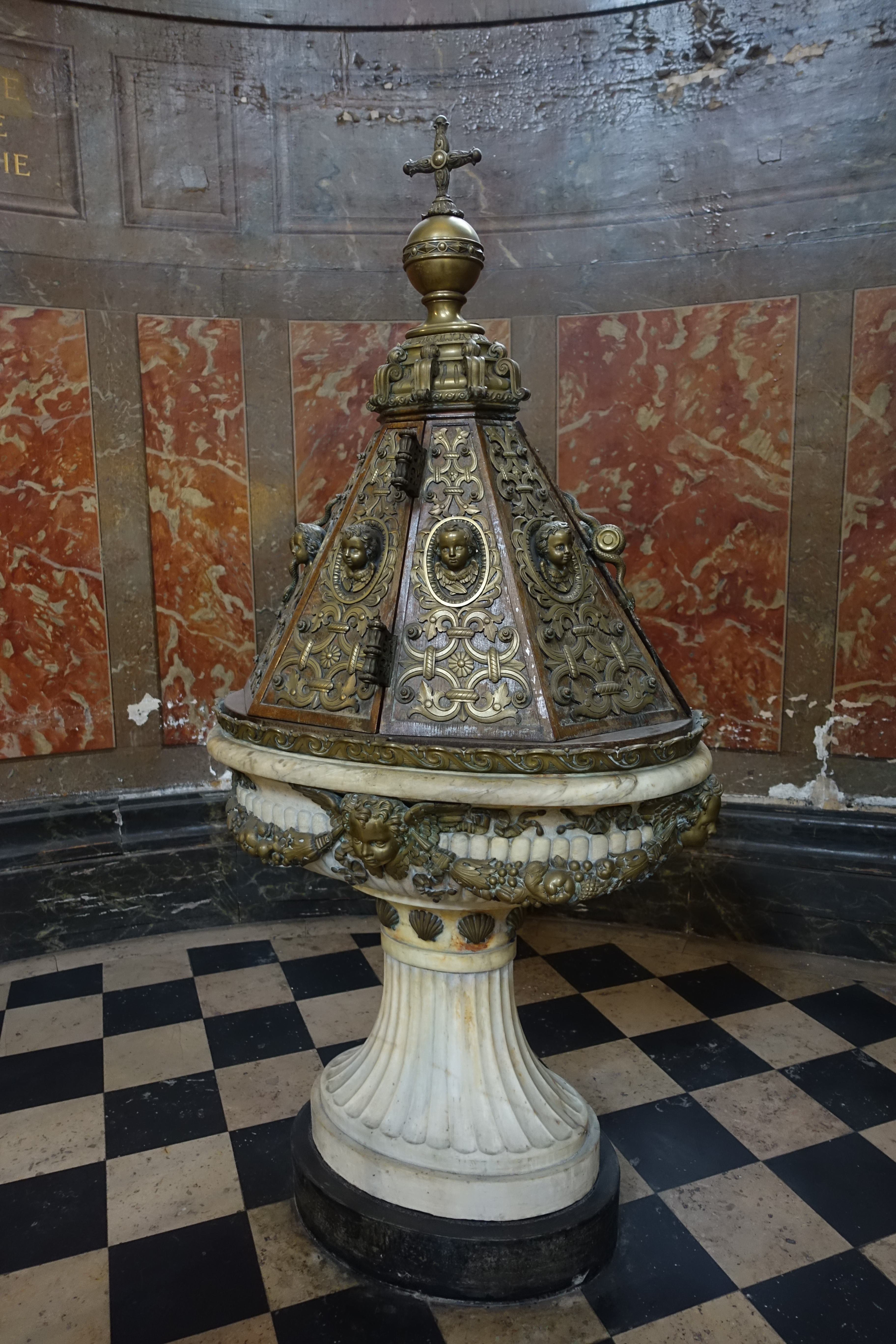 Église Saint-Roch, 296 Rue Saint Honoré, 75001 Paris, France.